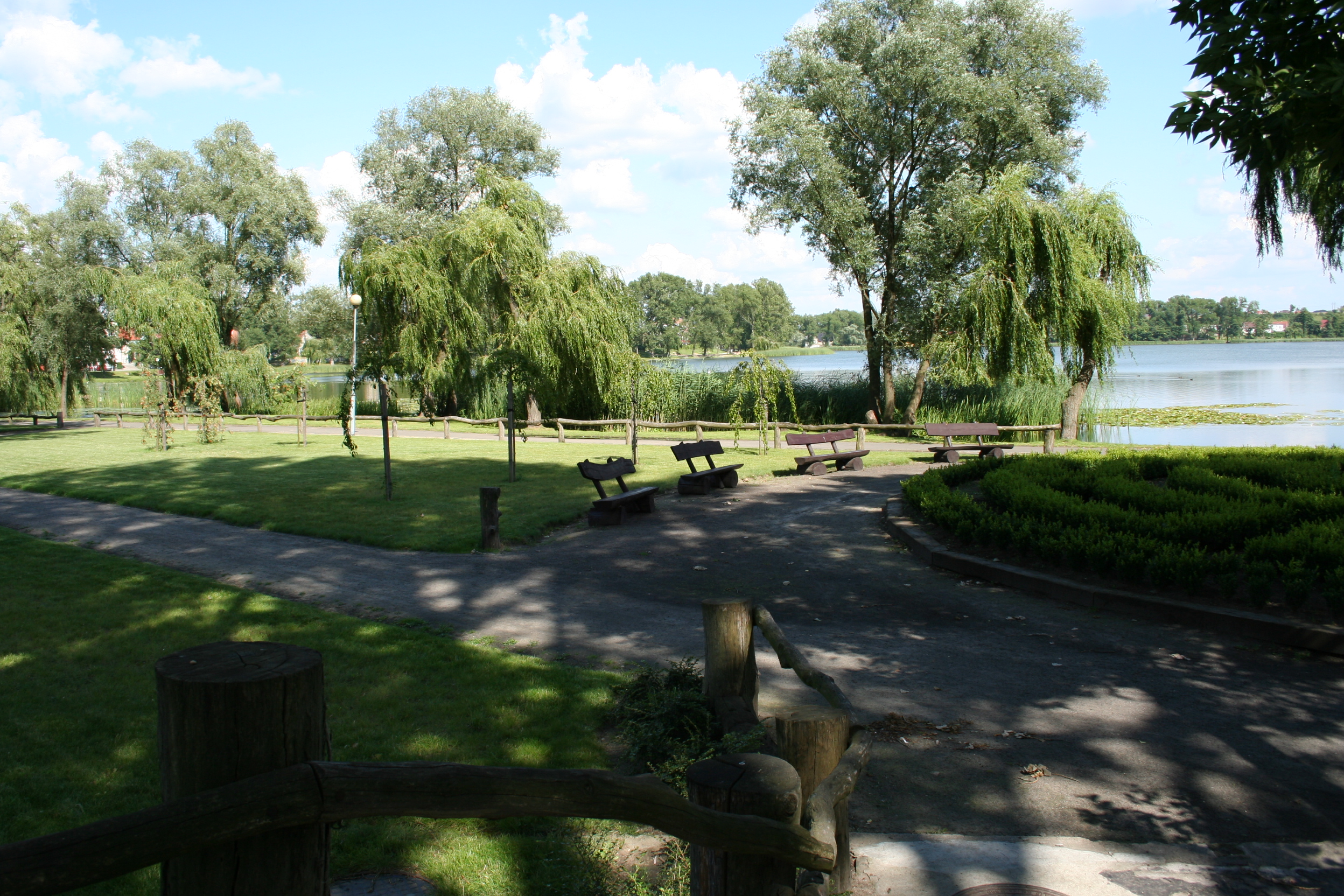 The Oskar Tietz Park in Międzychód